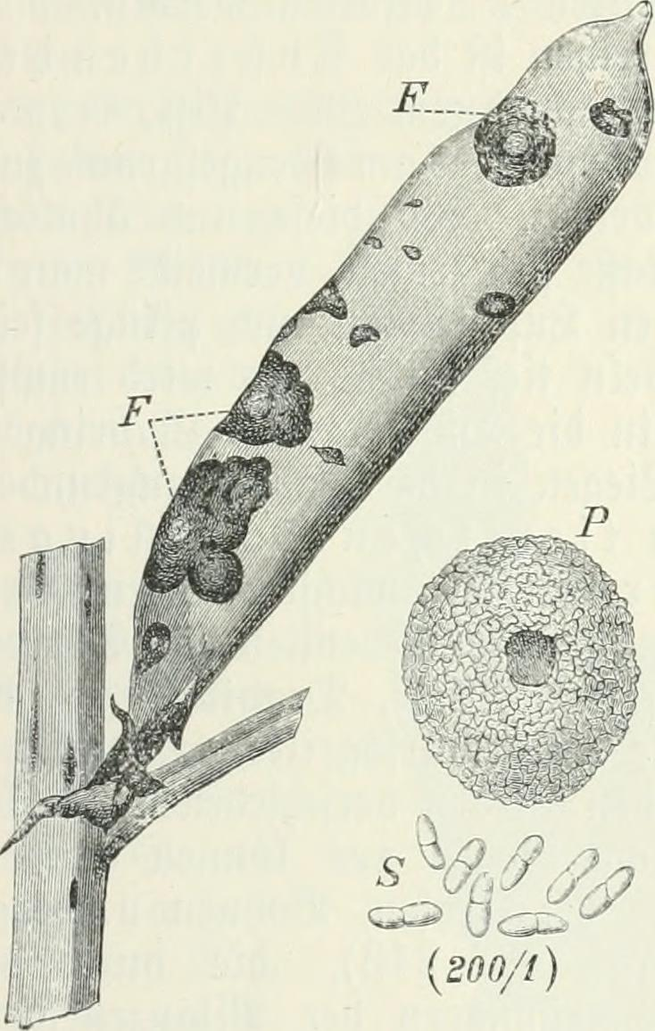 Ascochyta pisi Ascochyta pisi auf ackerbohnen. F Flecten, P Bnfniden, S Ronidien.